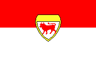 The flag of Lower Lusatia